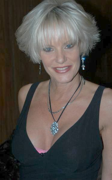 Cara Lott, taken at the FOXE awards